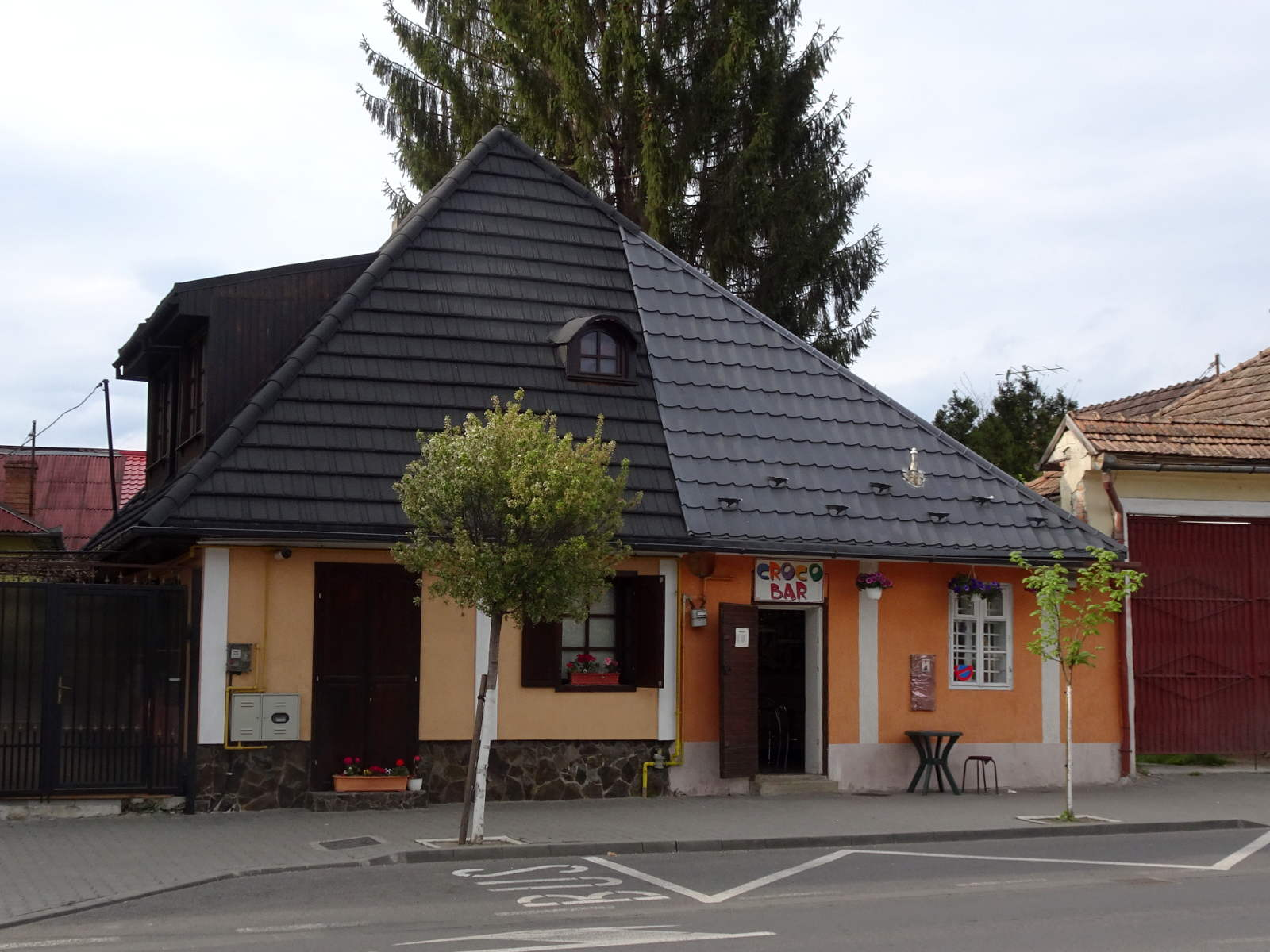 Monument house Súrlott Grádics in Târgu Mureș, 18. century